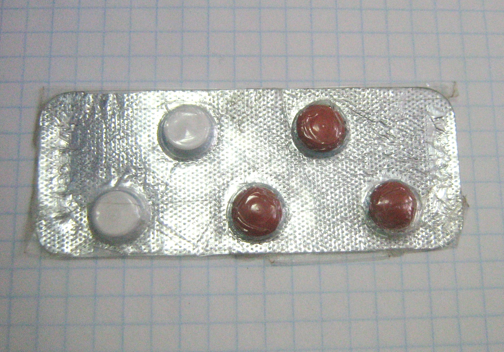 Acidotestum